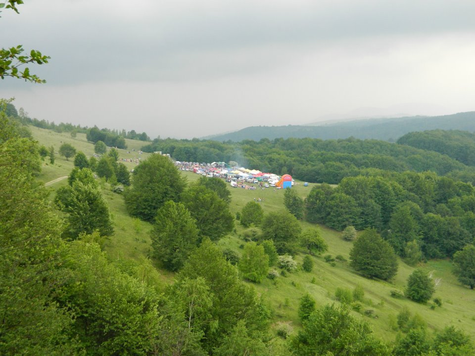 View of Măgura Priei (Purcăreaţă - Măsurişul Oilor), Sălaj County, Romania